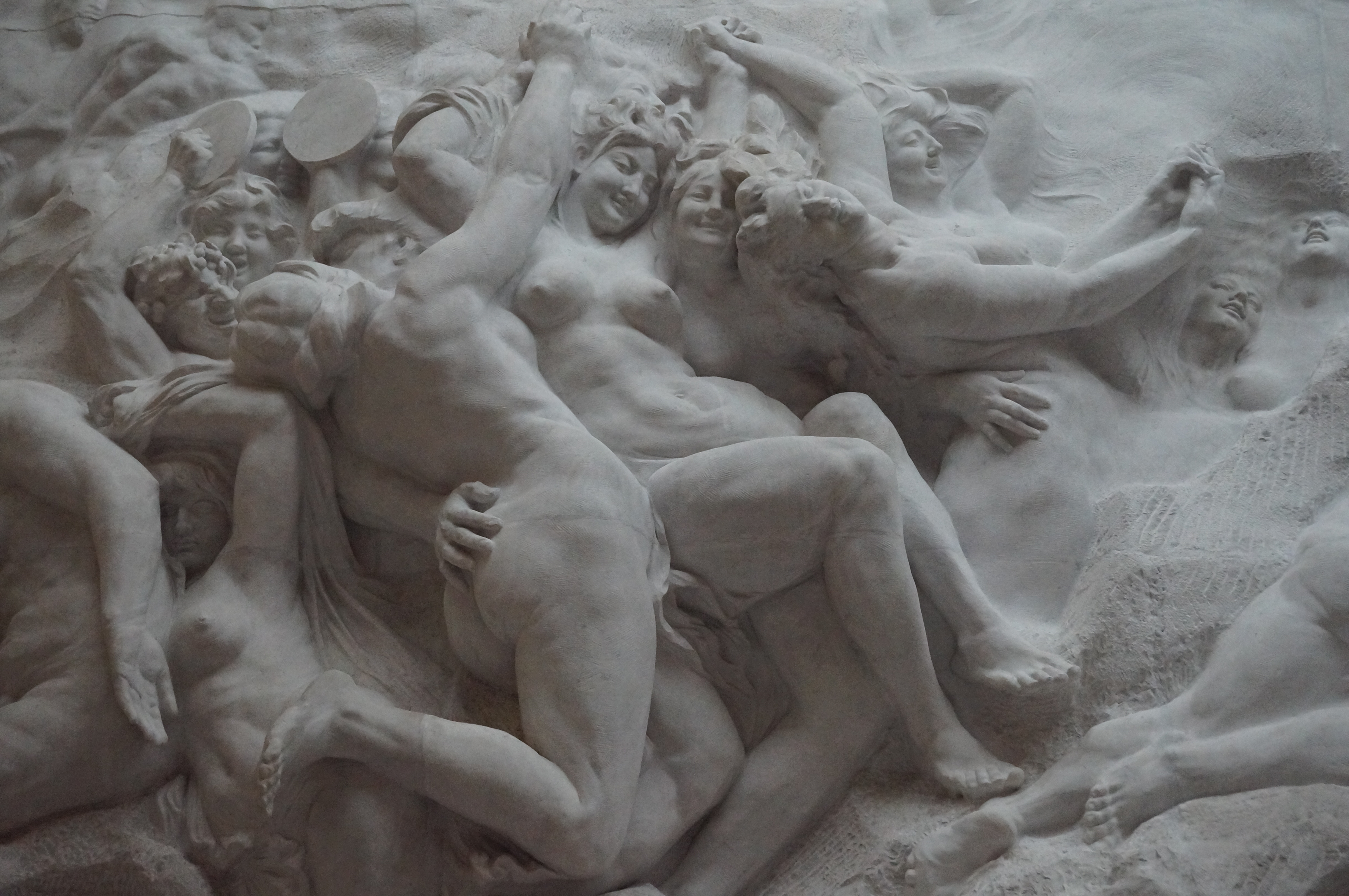 The Human Passions is a giant marble bas-relief, by Jef Lambeaux, sculpted between 1886 and 1898. It is housed in the specially designed Horta-Lambeaux pavilion in the Cinquantenaire Park in Brussels. This dynamic composition depicts youth and happiness.